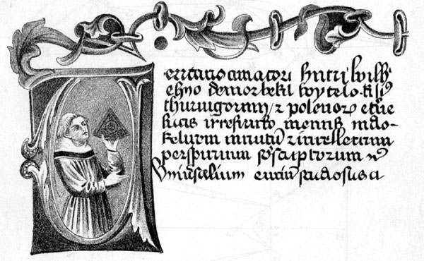 Page from a manuscript of "De Perspectiva" by Witelo with a miniature showing the author, end of 13th century